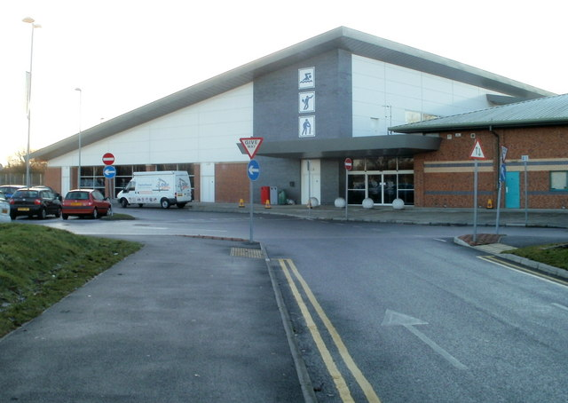 Swimming and Tennis Centre, Newport International Sports Village, Located on the south side of Spytty Road, part of Newport International Sports Village. The swimming pool is a 25 metre, 8-lane competition pool. The training pool measures 20 metres by 7 metres. There are more than 500 seats for spectators. The Tennis Centre has seven tennis courts, (four indoor, three outdoor), a multi-purpose hall, and various related facilities. There is also a floodlit multi-use games area.